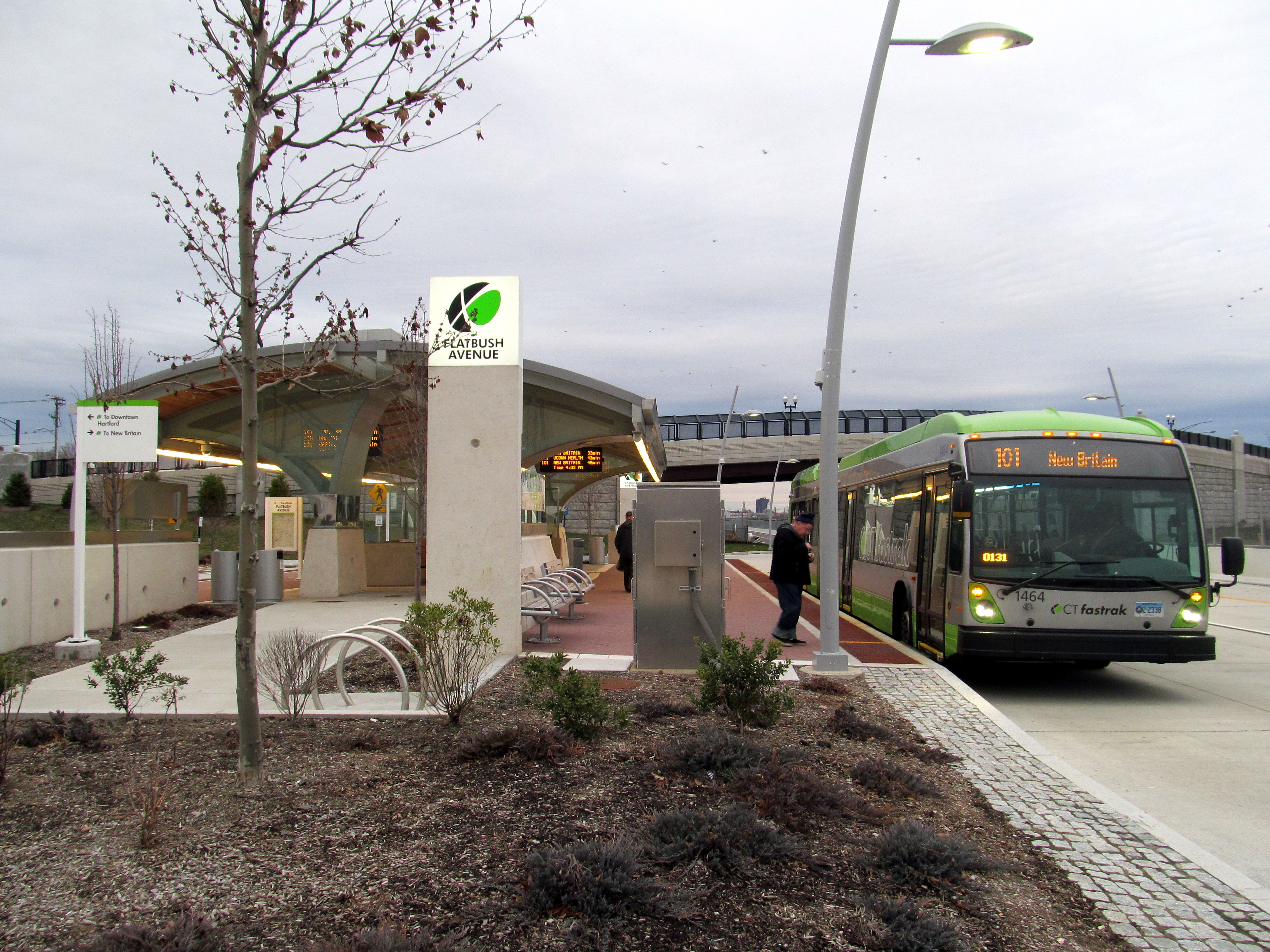 Southbound route 101 bus at Flatbush Avenue CTfastrak station in December 2015